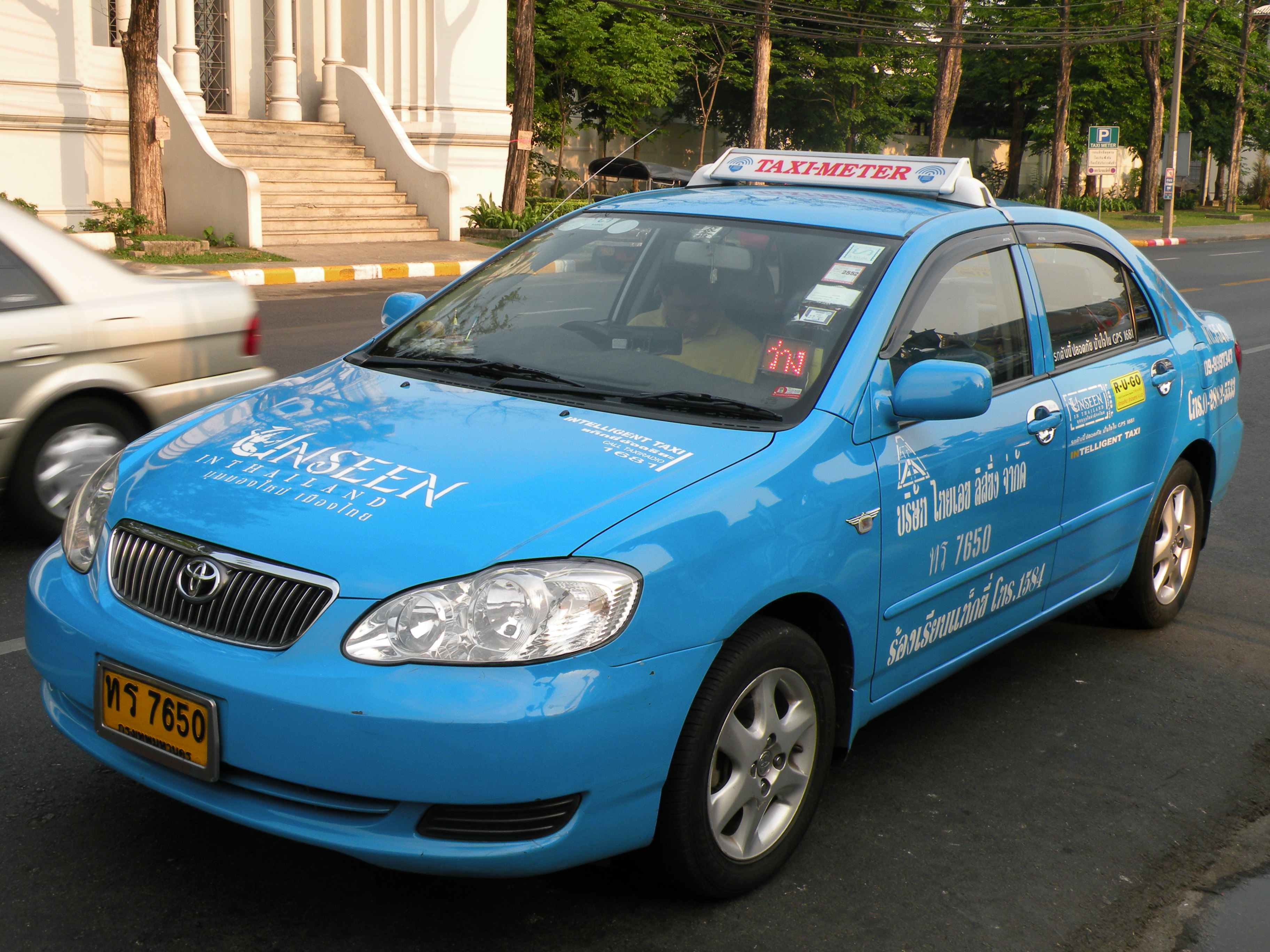 A toyota corolla altis, operated by the Bangkok Taxi service